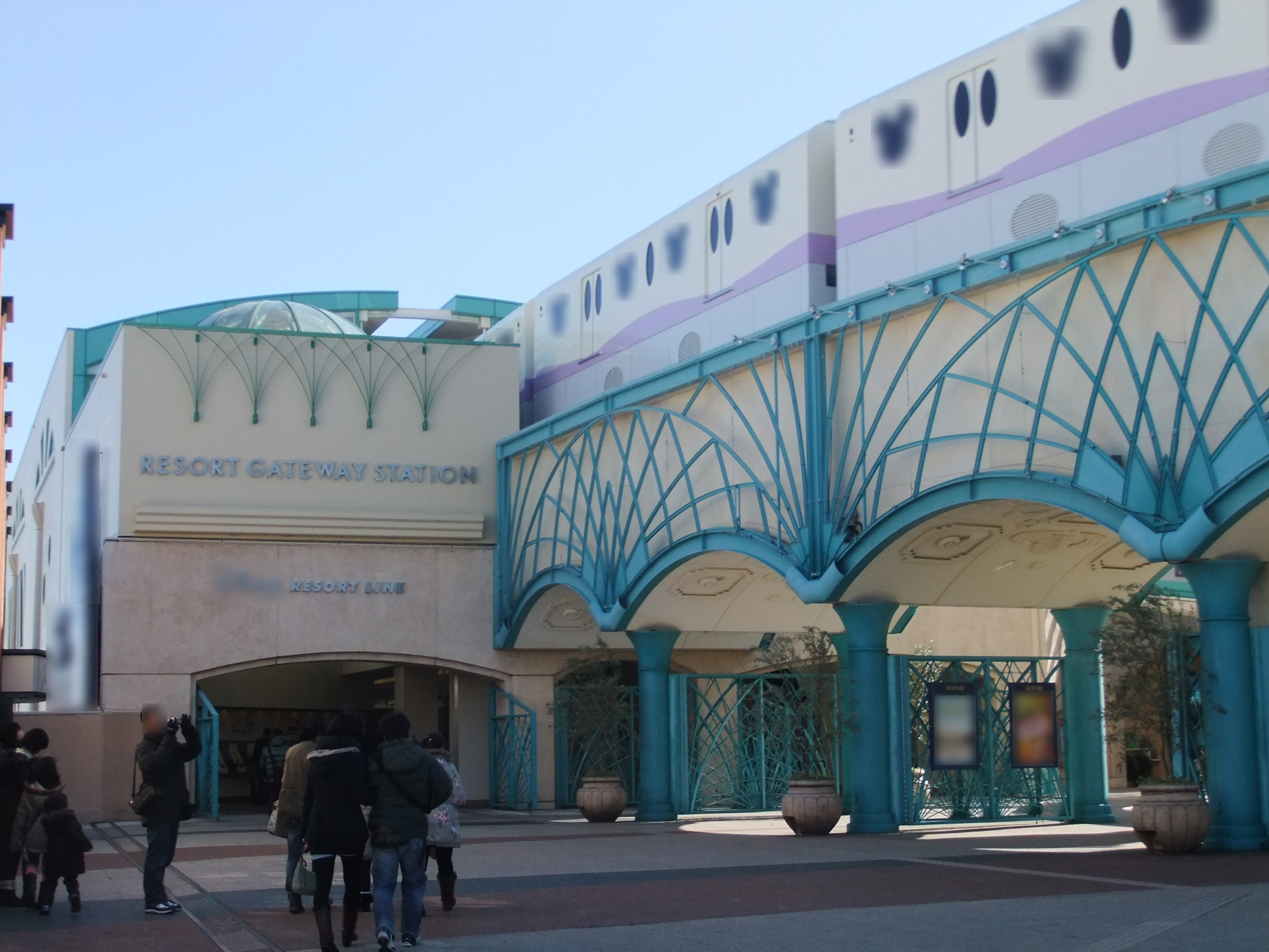 Resort Gateway Station on the Disney Resort Line in Maihama